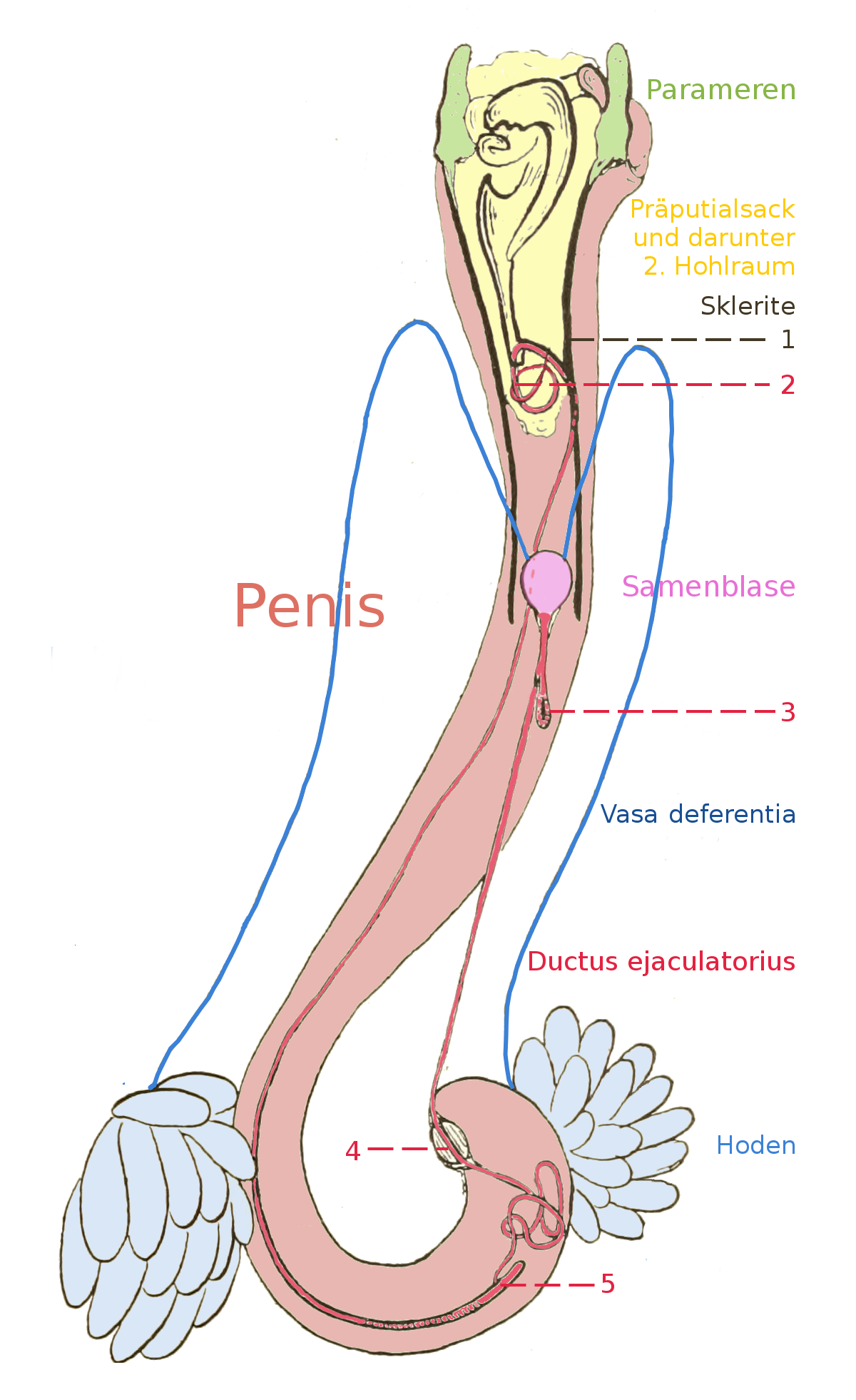 Derivation of File:2nd International congress of entomology, Oxford, August, 1912 .. (1913-14) (16044495353).jpg Alterations: turned 180°, deleted enlargement of detail, couloured, description in German. Description of the source at Wikimedia: Title: 2nd International congress of entomology, Oxford, August, 1912 .. Year: 1913-14 (1910s) Authors: International Congress of Entomology (2d : 1912 : Oxford); Jordan, Karl, 1861-1959, ed; Eltringham, Harry, 1873- ed; Walker, James John, ed; Rowland-Brown, Henry, ed Subjects: Entomology Publisher: Oxford, London, Aylesbury, Printed by Hazell, Watson & Viney, Ld. Text Appearing Before Image: 414 closely applied to this curved base of the penis, the right one generally lying on top of the organ, more or less covering the space encircled by the crook, but sometimes being so far moved sideways as it is drawn in our figure. Each testicle (ts) contains sixteen follicles, which are rounded distally and narrowed towards the common duct. The follicles are pressed closely to- gether and form a compact body, the apical and dorsal sur- faces of which resem- ble to some extent a compound berry. In the structure of the testicle Arixenia essentially differs from Hemimerus and the Earwigs (as far as they have been ex- amined), the testis of these insects being composed of one or two follicles rolled up. The very slender vas deferens (vd) origin- ates at the ventral side of the testis and runs straight back- wards to near the Text Appearing After Image: par È4 B2 Figs. 24 and 25.—Reproductive organs oí A rixenia jacobsoni ^. ts, testis ; vd, vas deferens ; de, ductus ejaculatorius ; Vi, apex of same ; vs, vesicle ; dr, atrophied duct ; par, paramere ; le, lever of paramere (abbreviated) ; B^, B^, B^, B*, genital armature. rectum and then curves forward.^ 1 In Forfícula and a few other Earwigs dissected by me the vas deferens is also straight, not being coiled up as drawn by the earlier authors.—K. J.